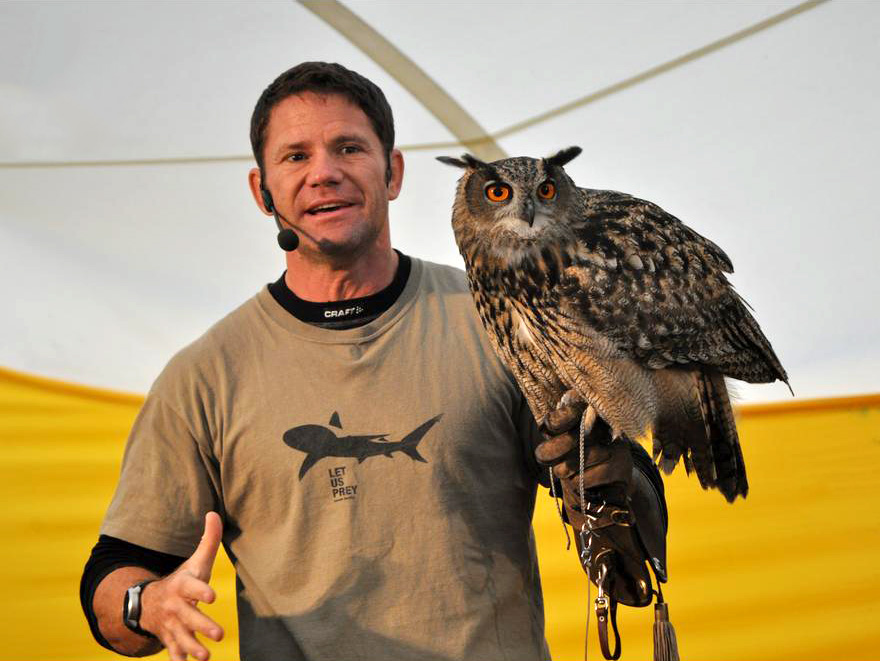 Steve with an owl